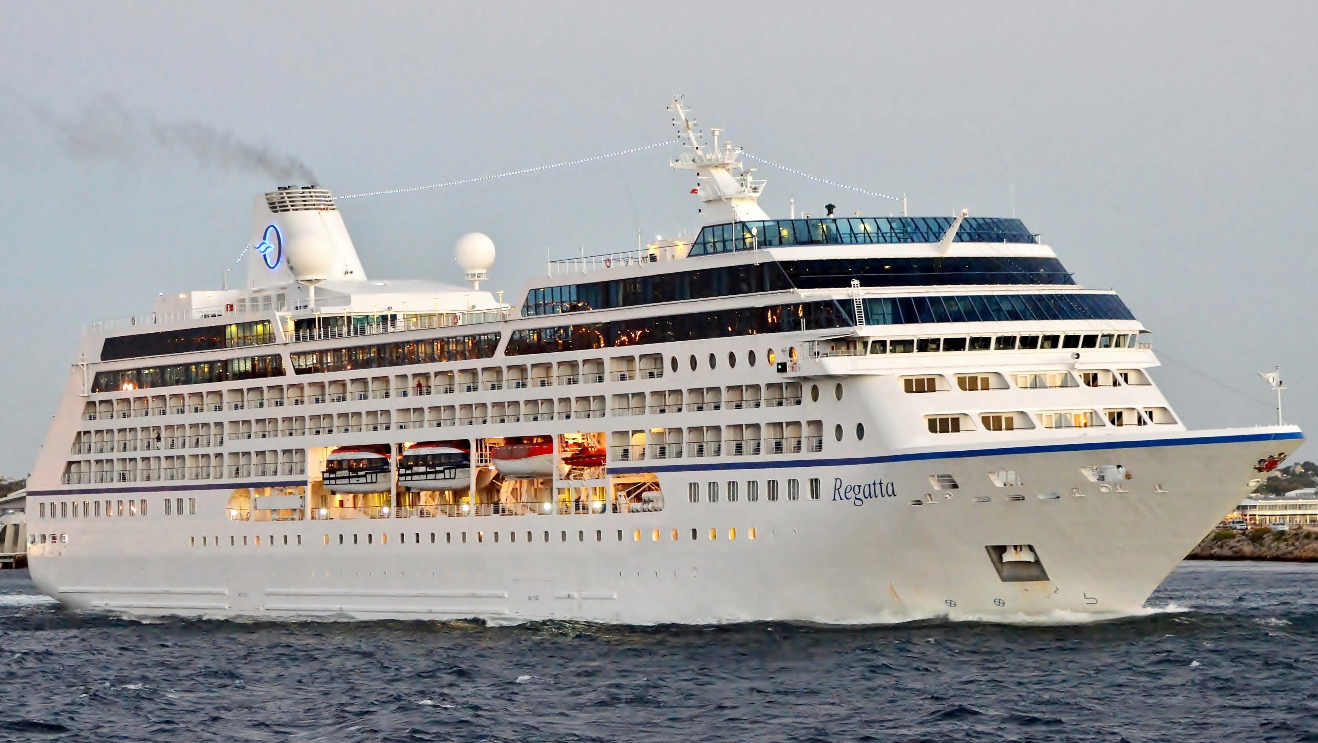 Cruise ship Regatta departing from Fremantle Harbour, Western Australia, on Southern Cross Explorer, a 34-day Sydney to Sydney cruise around Australia in an anti-clockwise direction via Benoa in Bali, Indonesia. The departure had been scheduled for a day earlier, 11 January 2018, but was delayed after the ship's arrival in Fremantle.